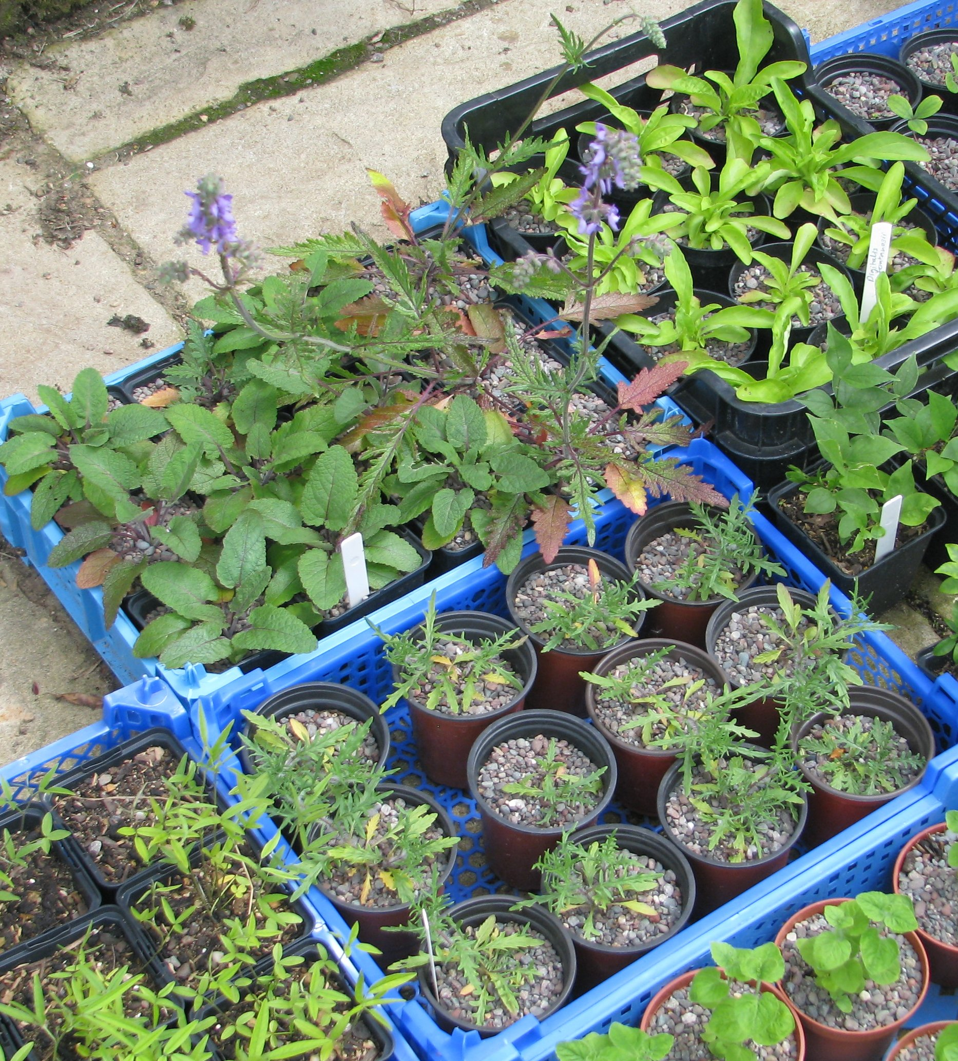 The upper tray are seedlings of S.nutans from the front garden, the lower, of S.jurisicii growing nearby. The jurisicii look about right but the nutans are a very mixed bunch. Those on the left are what i'd expect and may be pure selfed nutans but those on the right are obviously very different - intermediate between the parents and showing a quite dramatic degree of hybrid vigour - flowering in their first year most obviously where the others are nowhere near flowering size. Whether the hybrids will be worth growing in their own right remains to be seen. I may have to come up with a cultivar name.